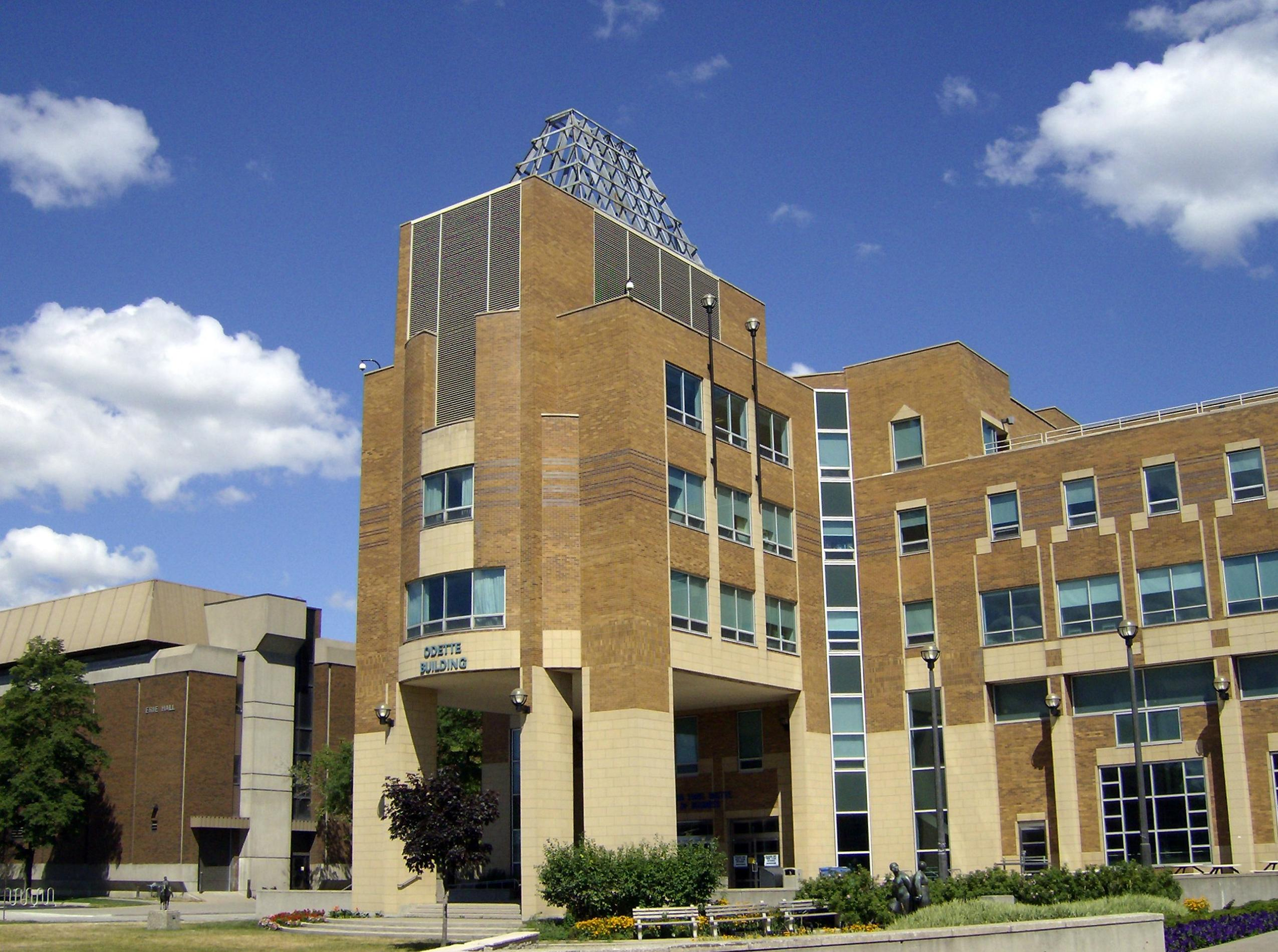 Faculty of Business bldg, University of Windsor